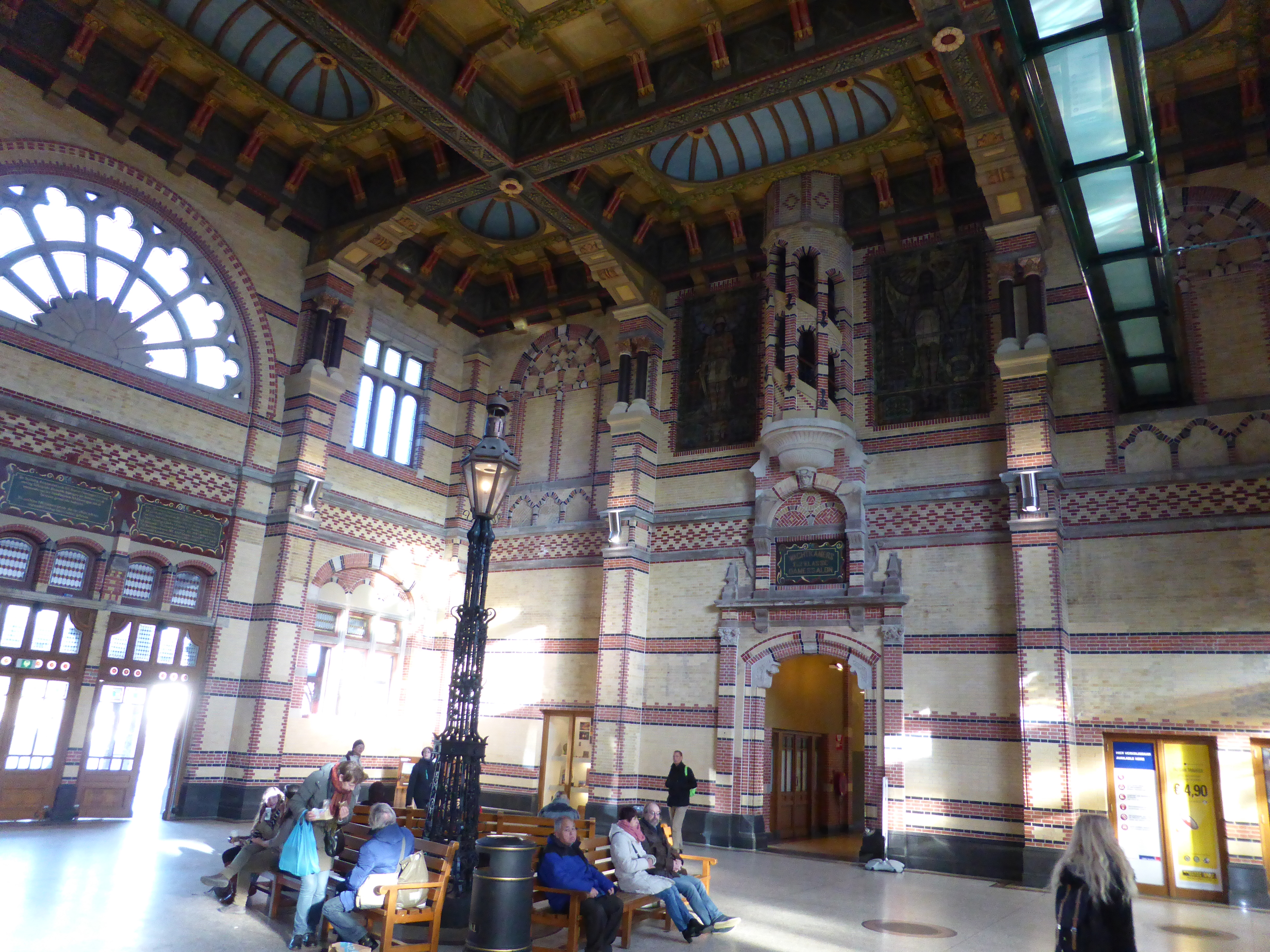 A group of passengers waiting in the great entrance hall